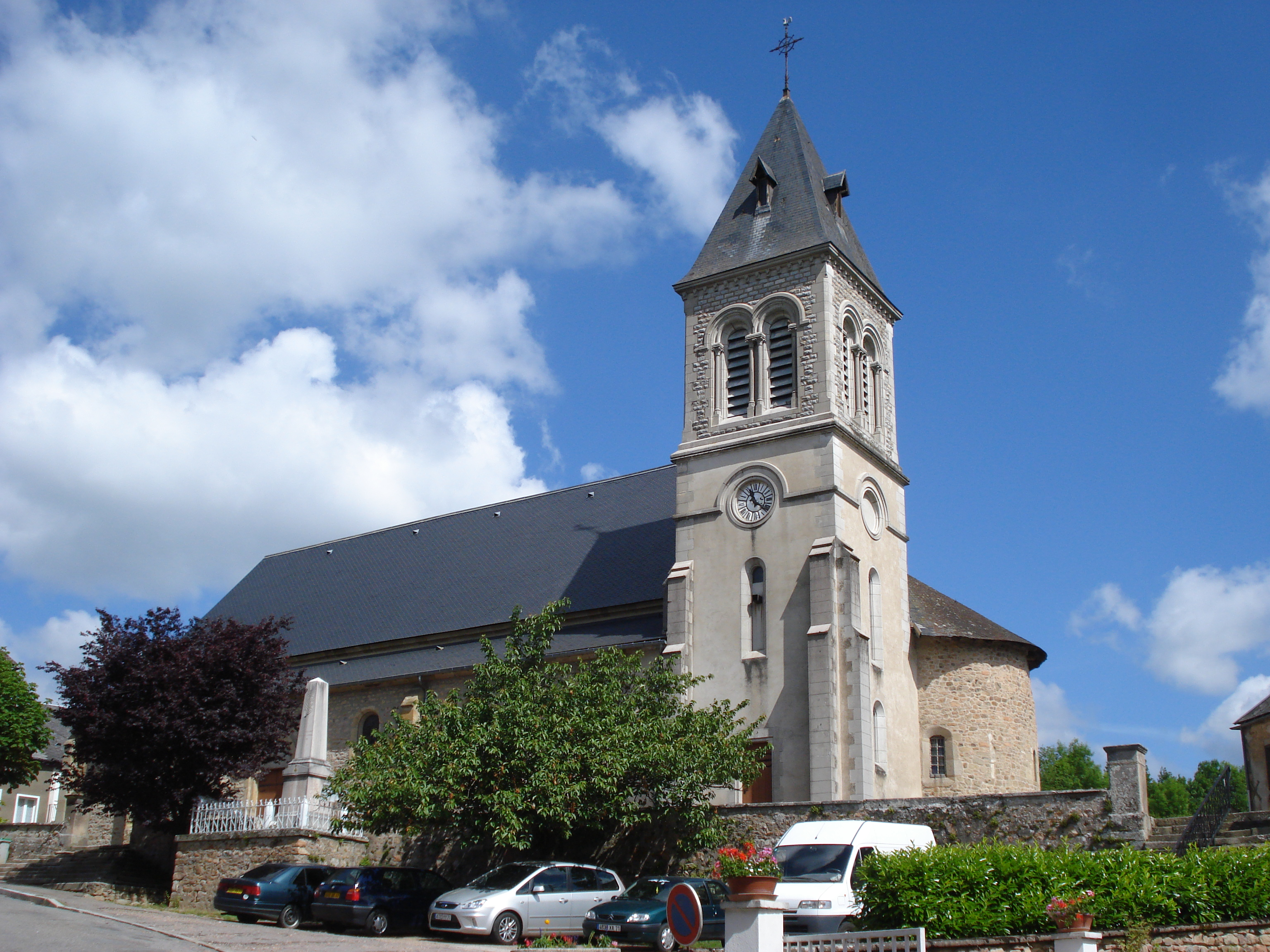 Anost (Saône-et-Loire, Fr), church.JPG